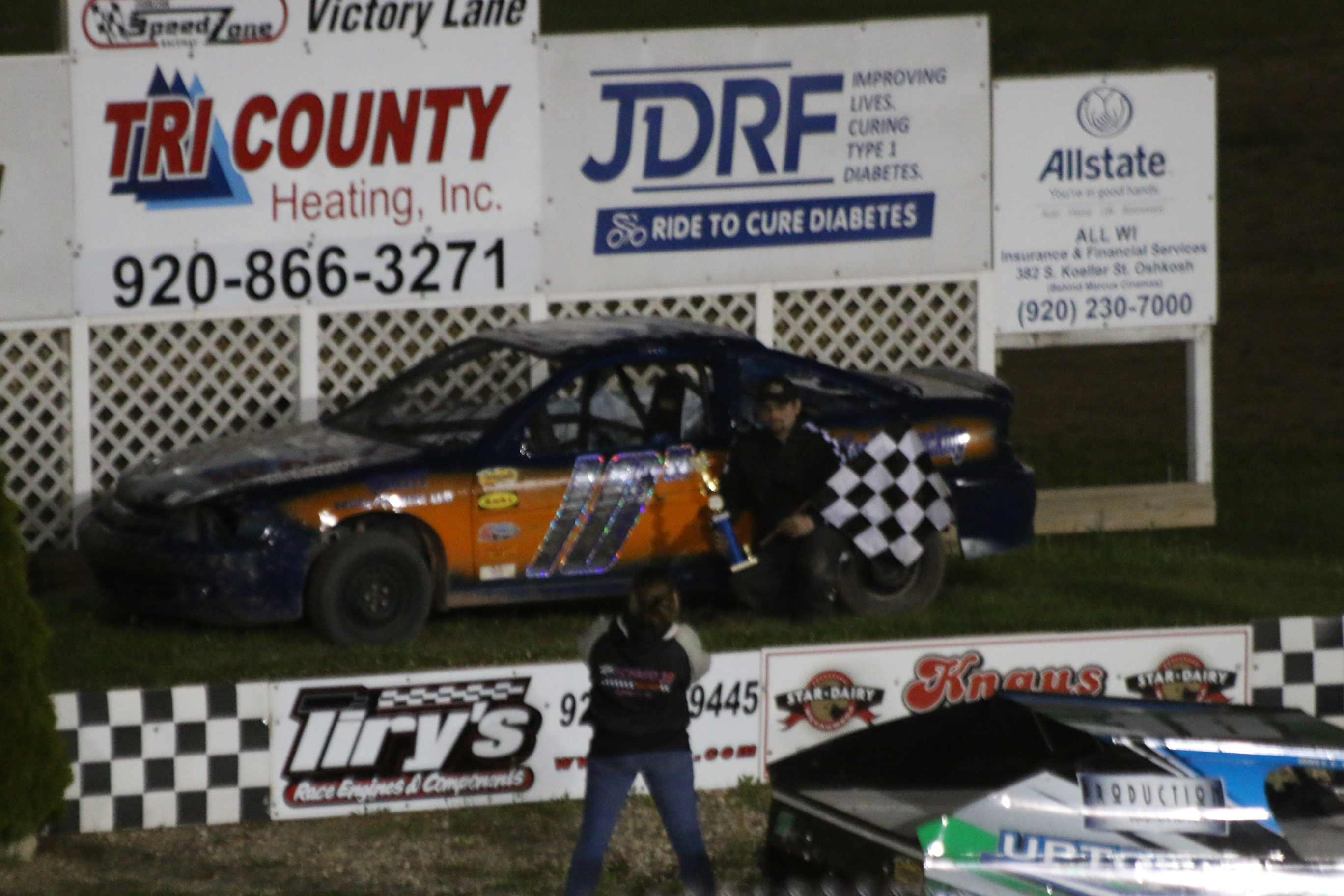 IMCA Sport Compact driver Mitch Meier after winning at the Oshkosh Speedzone. He finished 2nd in the national points.